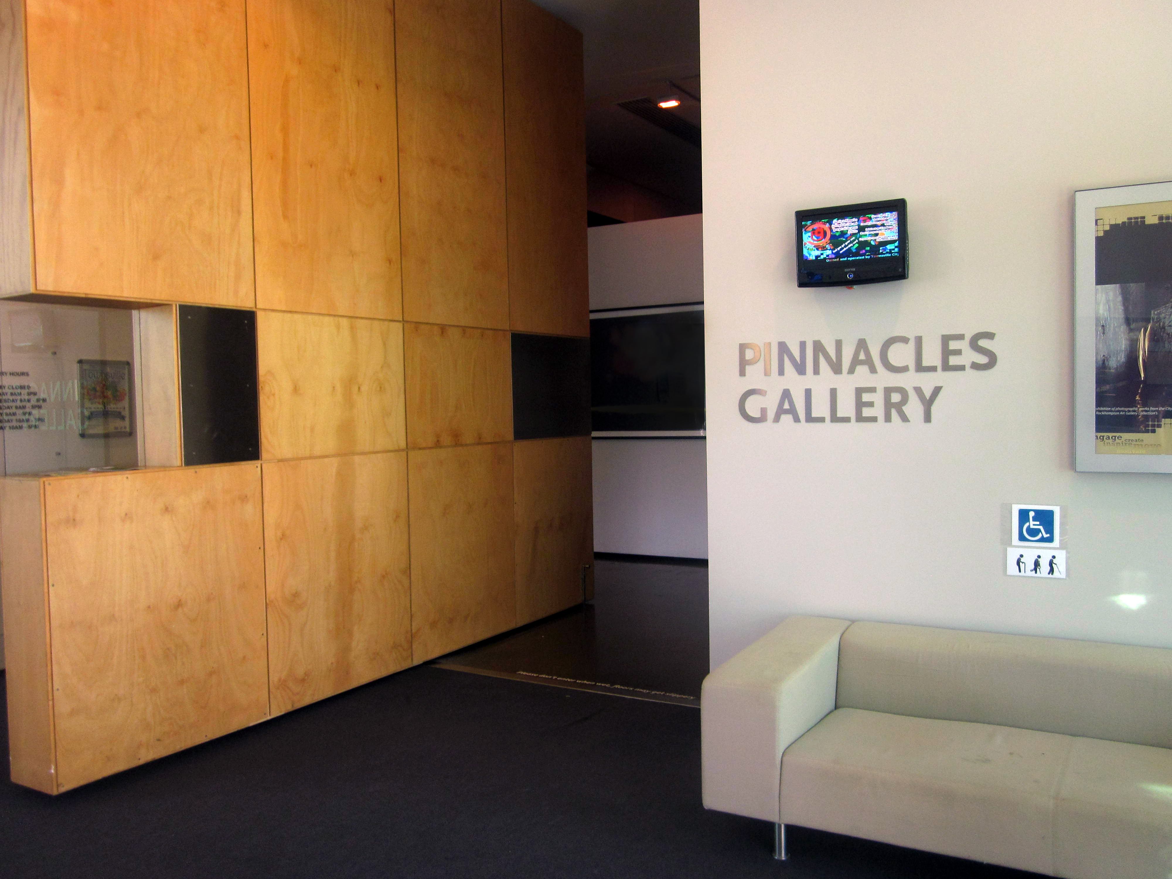 Entrance to Pinnacles Gallery from inside Riverway Arts Centre on 17 April 2012